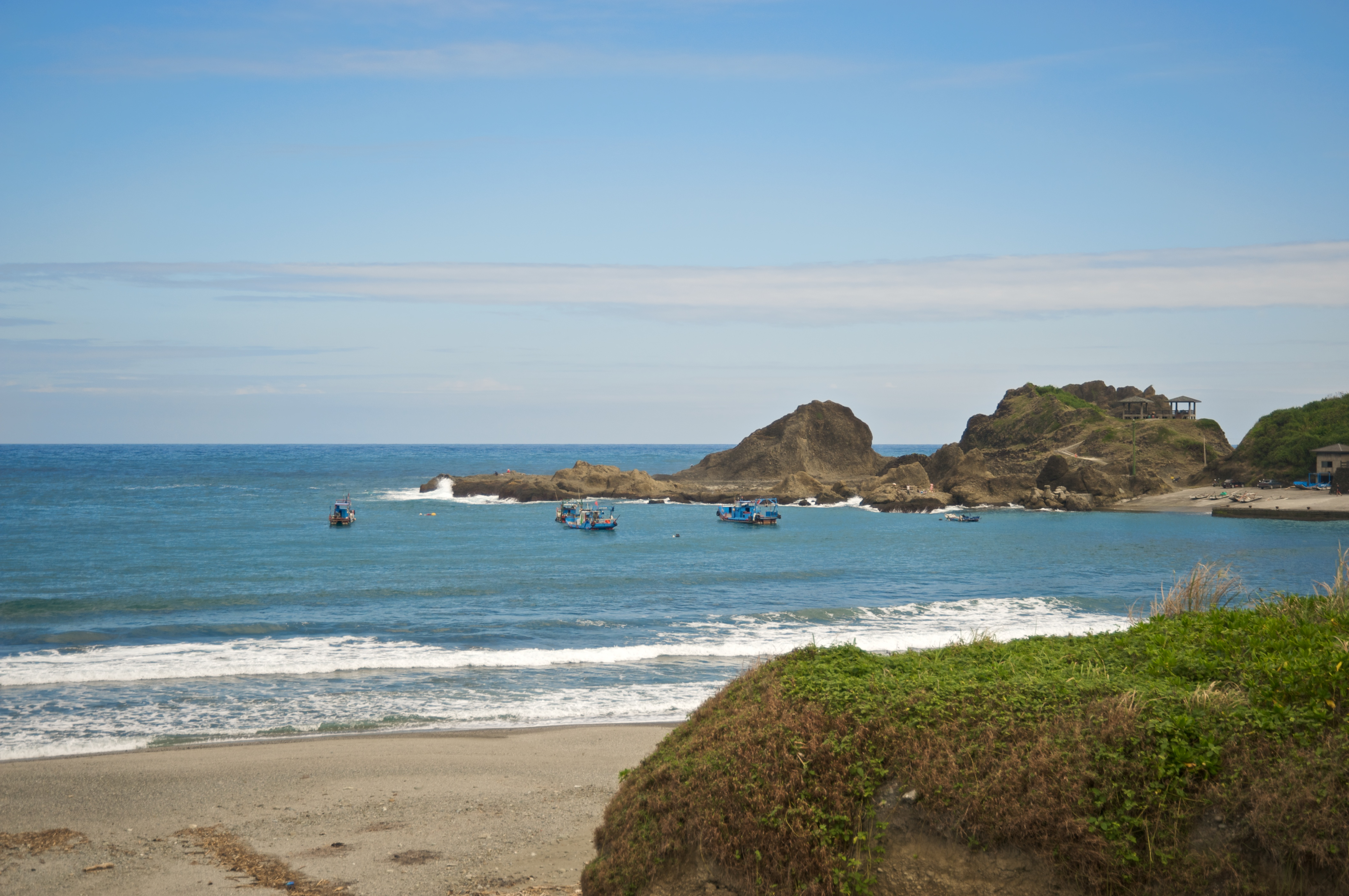 East coast of Taiwan